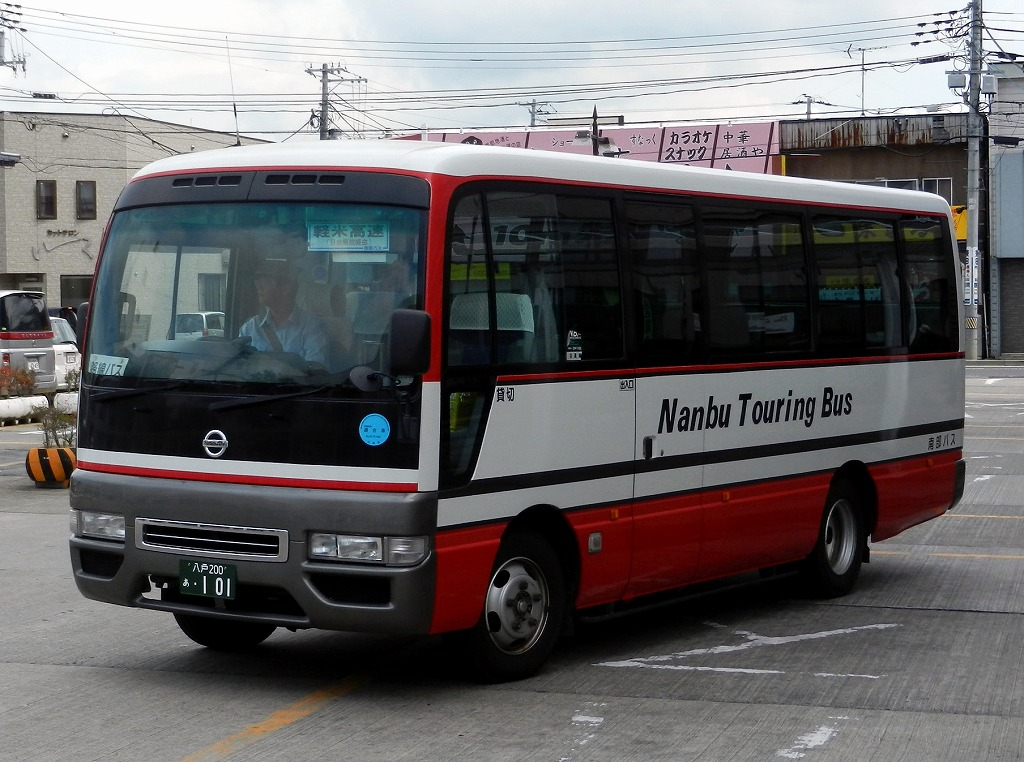 Nanbu bus Nissan Civilianfor Karumai Highwaybus (Hachinohe-Karumai)